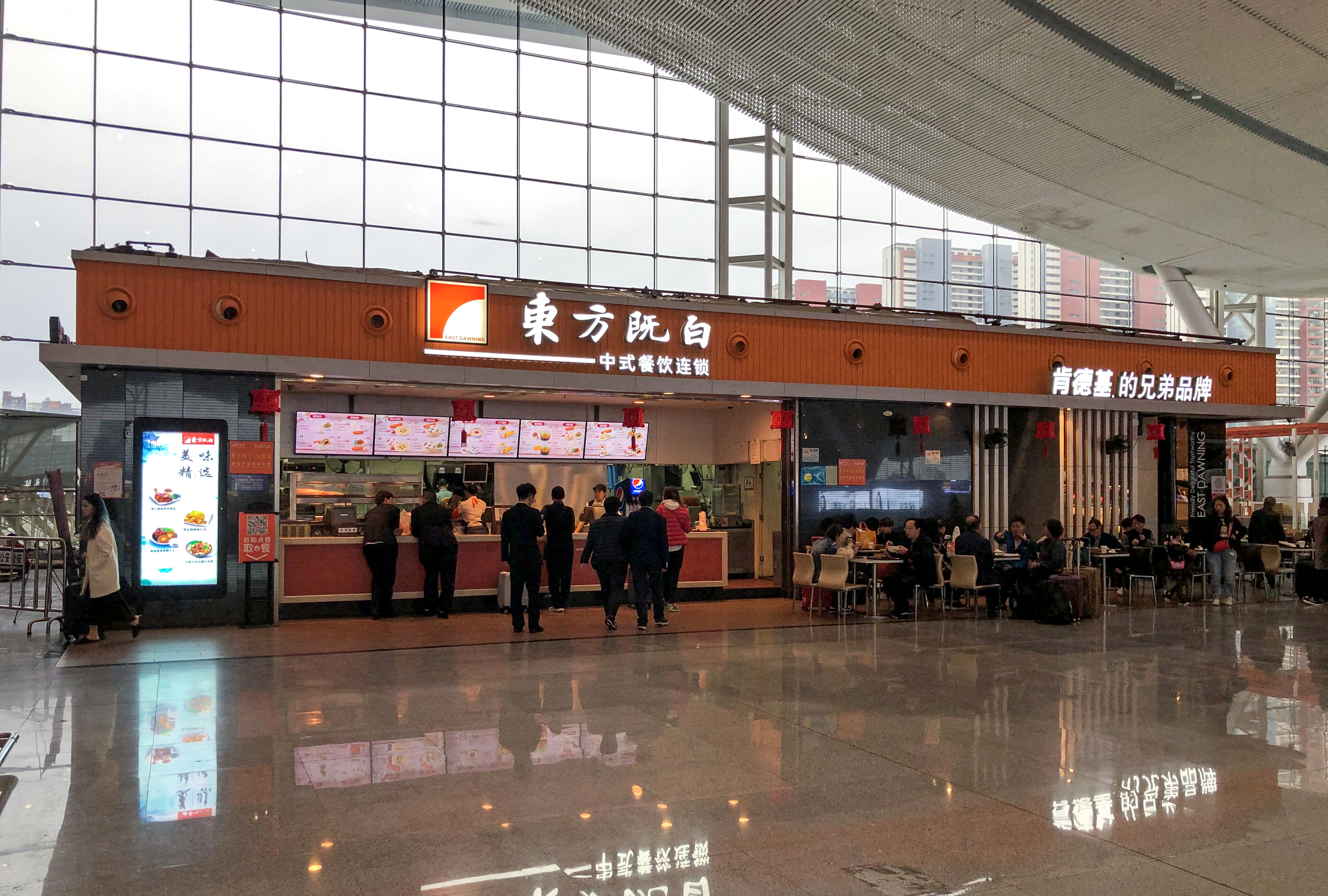 The gap between D927 and G5613 is enough for a breakfast.